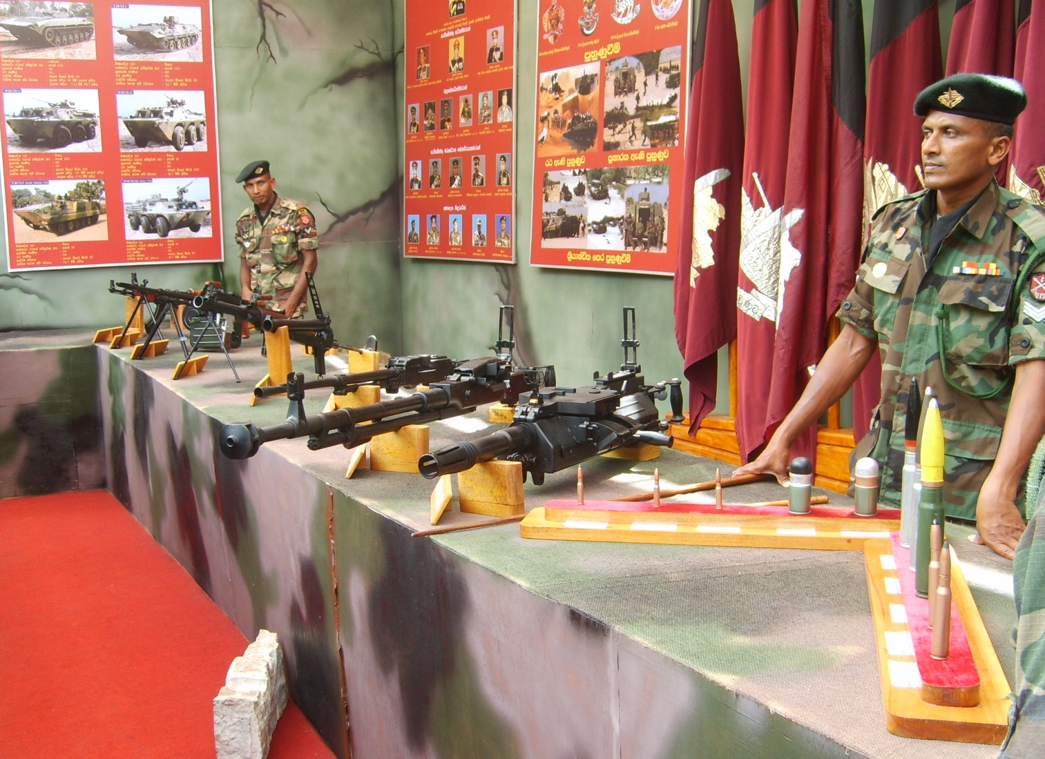 Weapons and ammunition used by the Sri Lanka Army Mechanized Infantry Regiment on display at the Army 60th Anniversary Exhibition